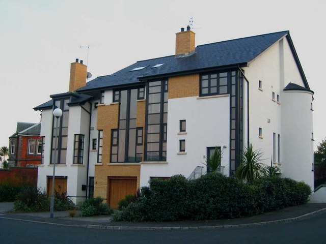 Modern houses, Seacourt Lane [2] More modern housing - the Victorian 'Glenbank' poking out to the left is in stark contrast. Facing 593651